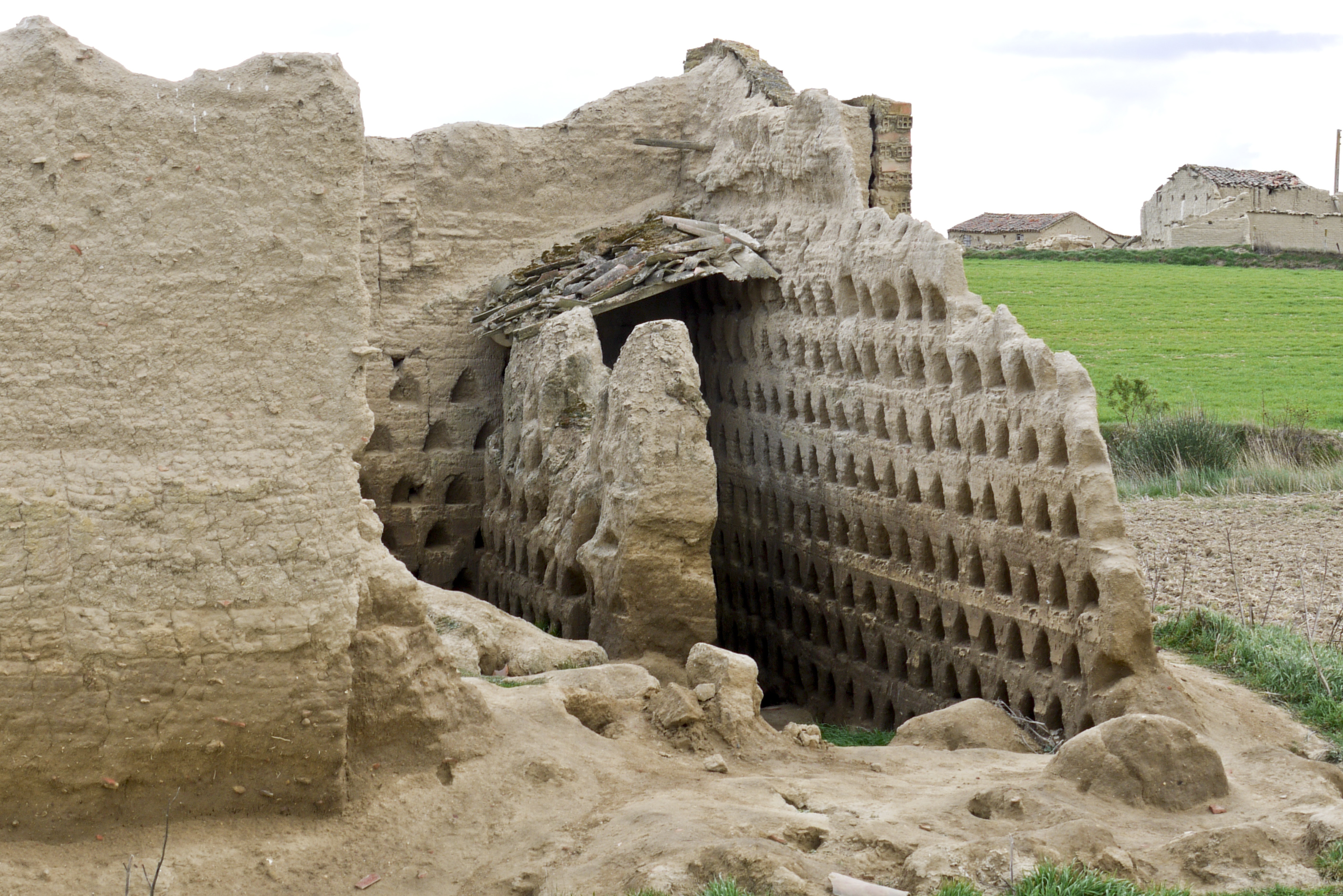 Dovecote in Villafáfila, Castile and Léon, Spain. Abandoned.